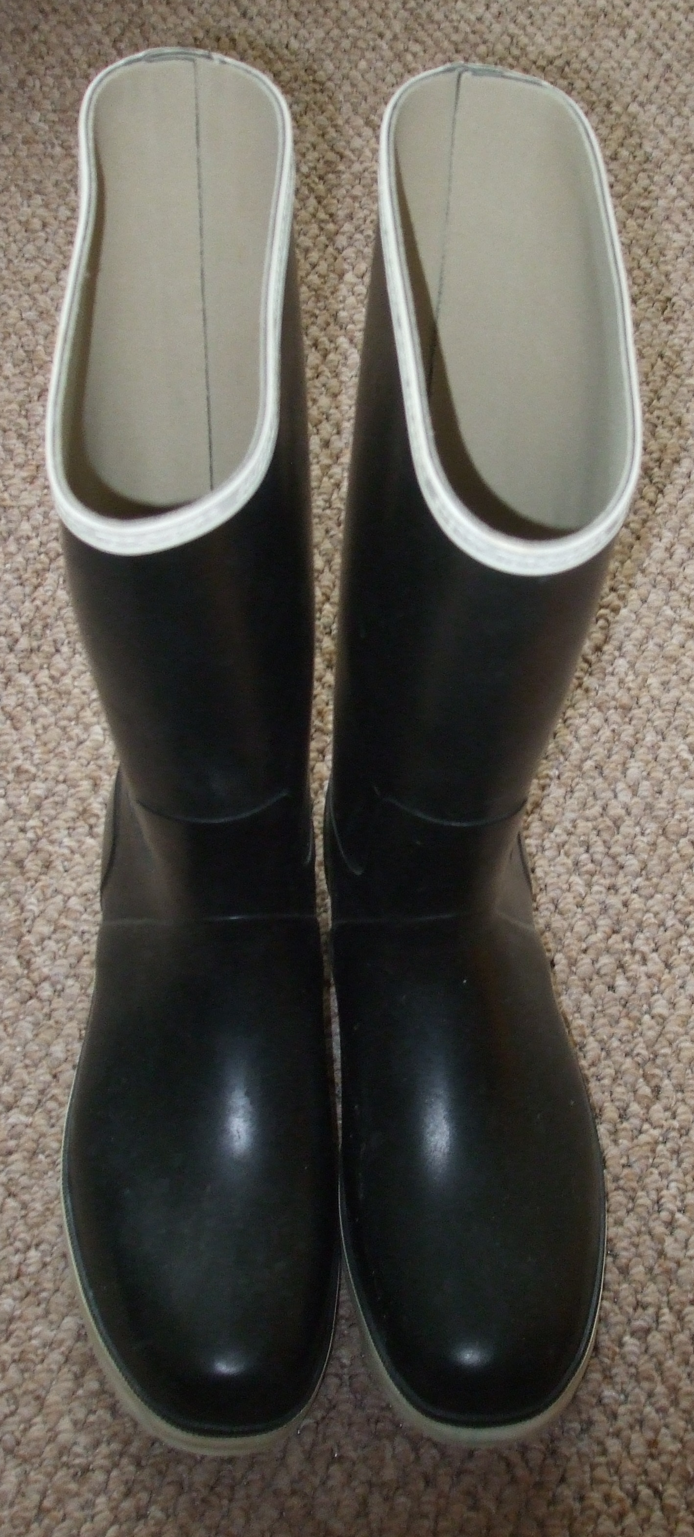 This image shows a pair of Sperry Topsider tall rubber sailing boots with white top bands and soles. While these Topsiders come with the flat razor-cut soles typical of sailing boots, they otherwise resemble rubber wellington boots in design.